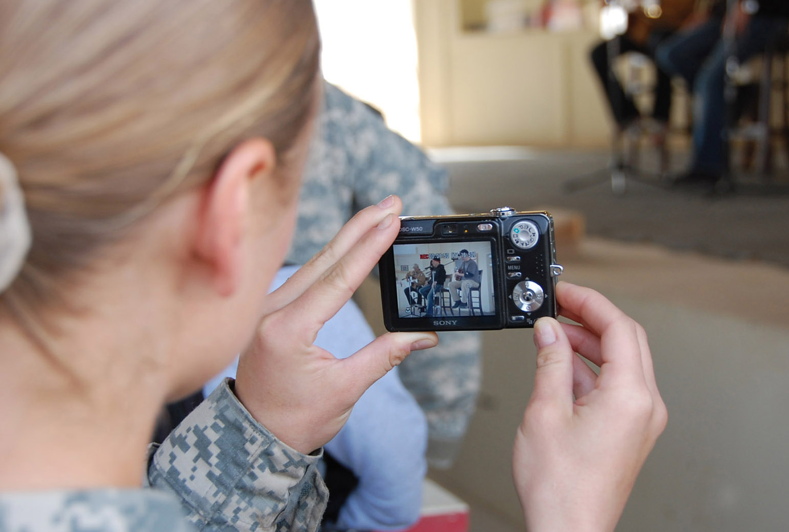 CAMP TAJI, Iraq ñ Sgt. Kristen Guerrero, heavy equipment operator, 66th Engineer Company, 2nd Stryker Brigade Combat Team, 25th Infantry Division, Multi-National Division ñ Baghdad, who hails from West Plains, Mo., takes pictures of Craig Morgan during the Sergeant Major of the Army Hope and Freedom Tour 2008 at Camp Taji Dec. 20. See more at Army.mil (U.S. Army photo by Maj. Al Hing, 2nd SBCT PAO, 25th Inf. Div., MND-B)